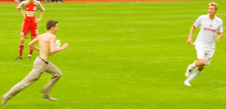 Radoslav Kováč before stopping supporter